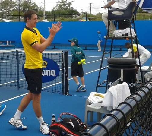 This photo shows John Millman applauding his fans after a match against Donald Young at the 2013 Brisbane International.